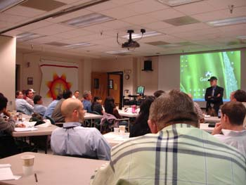 AEI's Ken Starcher lecturing at WEATS 2007.